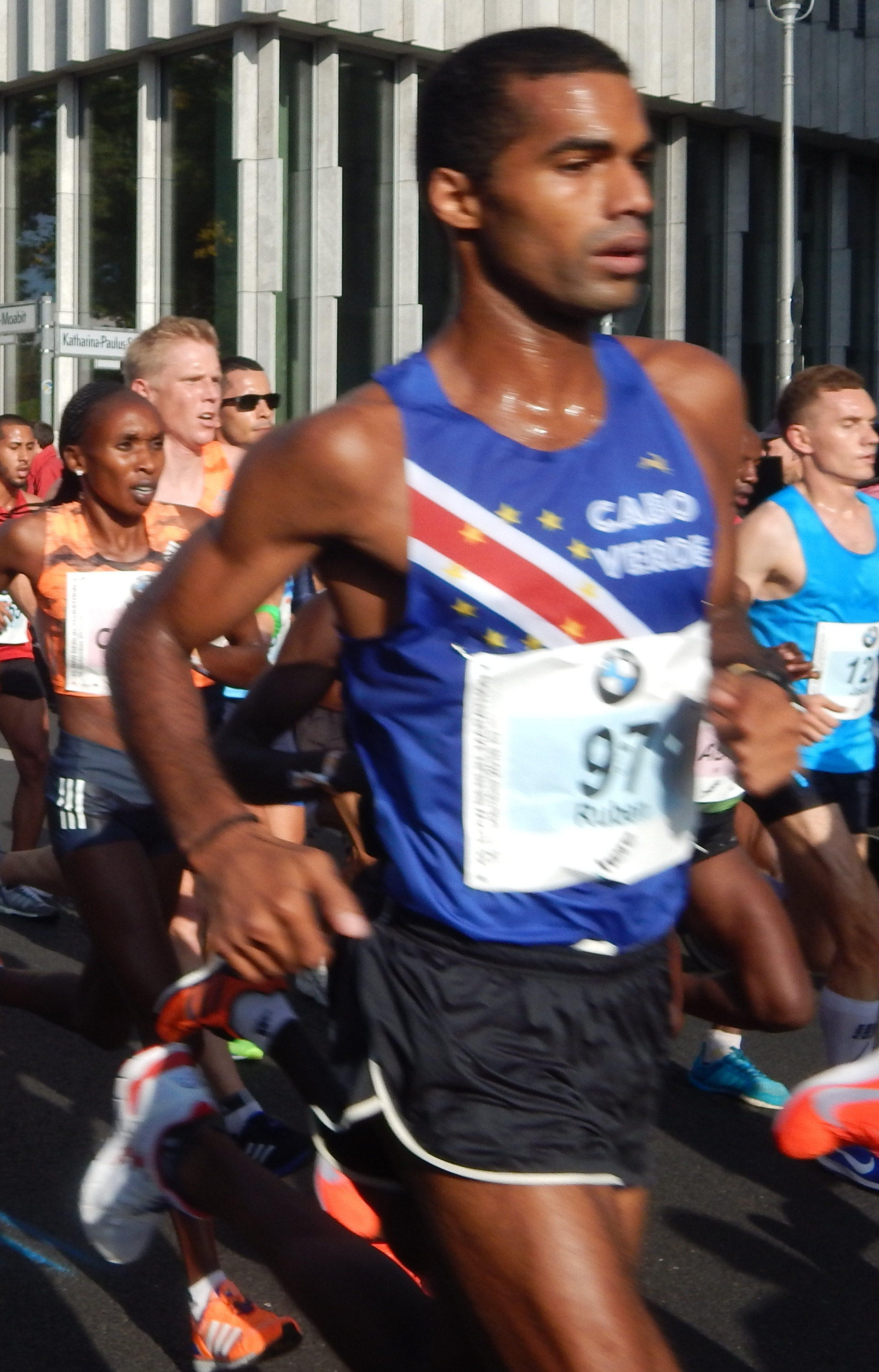 Berlin Marathon 2018